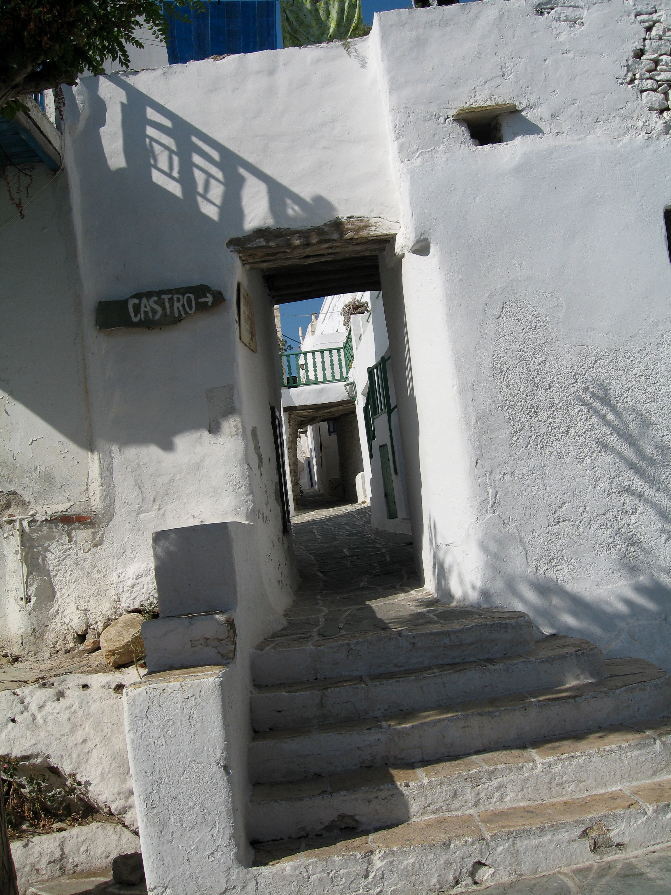 Folegandros Island, Greece